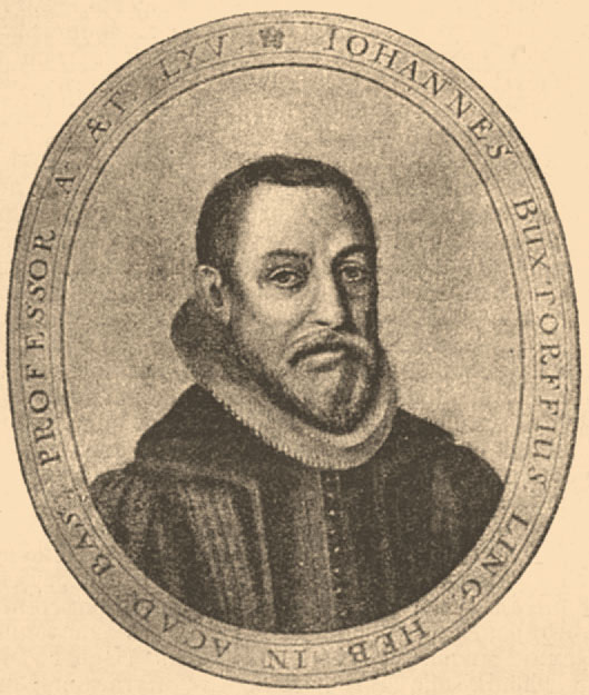 Illustration from Brockhaus and Efron Jewish Encyclopedia (1906—1913). Johannes Buxtorf.